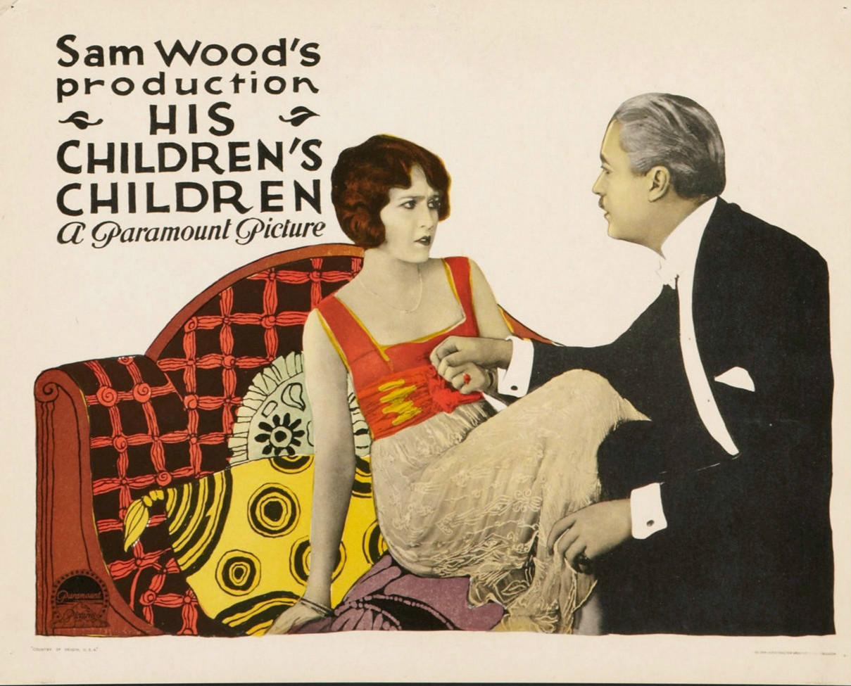 Lobby card for the American drama film His Children's Children (1923). There are no copyright marks on the item. At lower left is the Paramount logo and Country of origin USA. At lower left is This lobby display leased from Famous Players Lasky Corp.